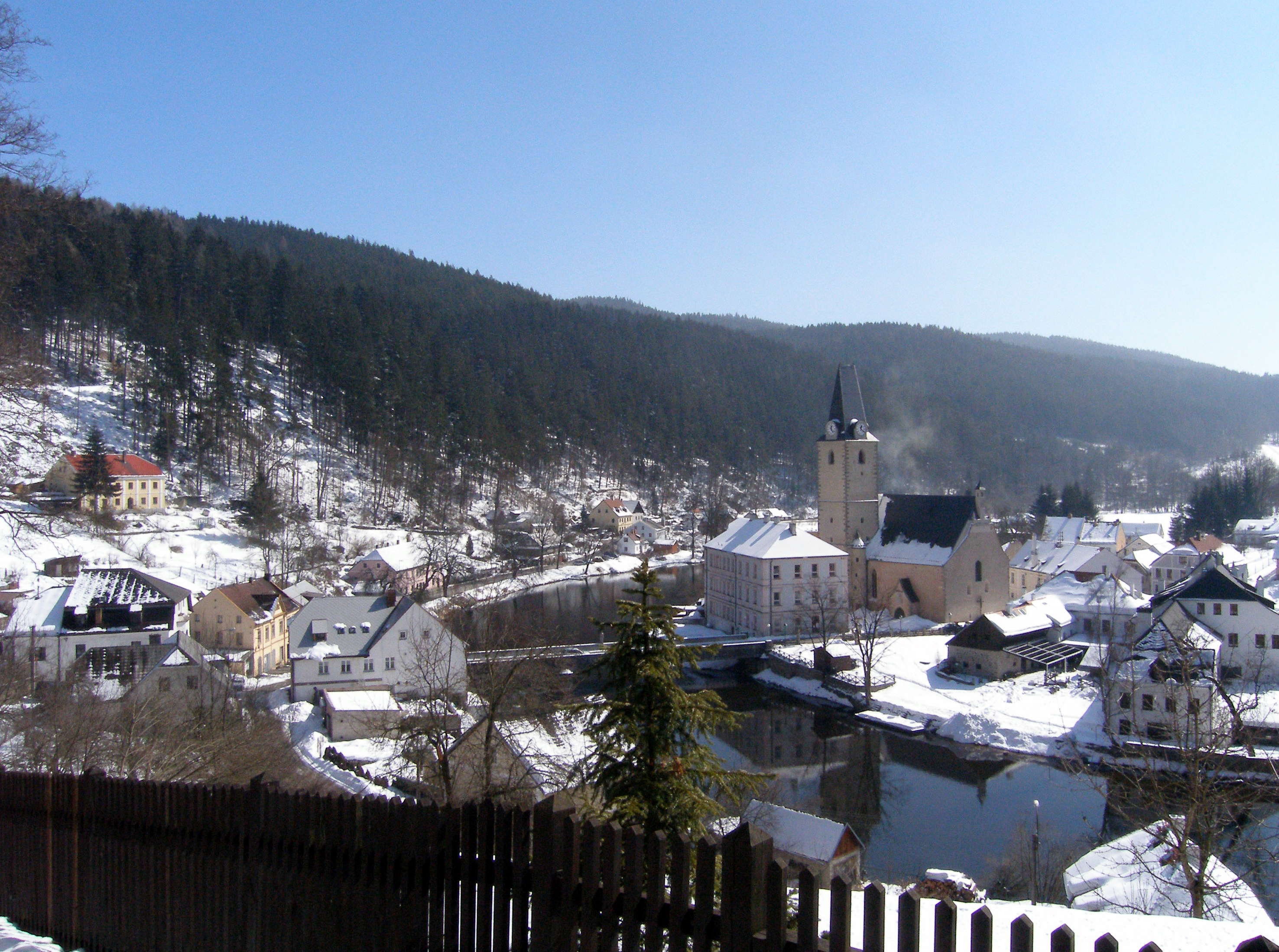 View from Rožmberk Castle (Rožmberk nad Vltavou, Czech Republic)